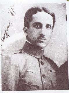 Greek military pilot Chistoforos Stavropulos (1902-1923). During the Asia Minor campaign (1919-1922) he shot down July 12, 1922 near to Afyon Karahisar Turkish airplane Breguet, provided funeral of Turkish pilots Ahmet Bahhatin Bayram and Cemal bey by Muslim clergy and in accordance with Muslim rituals, then he dropped over the Turkish airfield box with a message and personal belongings of died Turkish pilots.